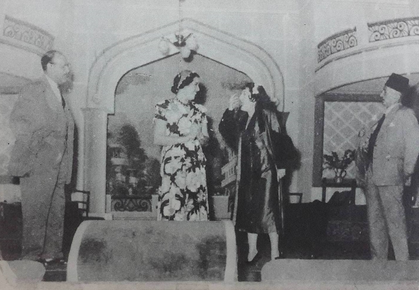 Naguib el-Rihani theater group: Muhammad Kamal al-misri, Mimi shakeeb, and siraj munir, in one of their plays during the 1930's.